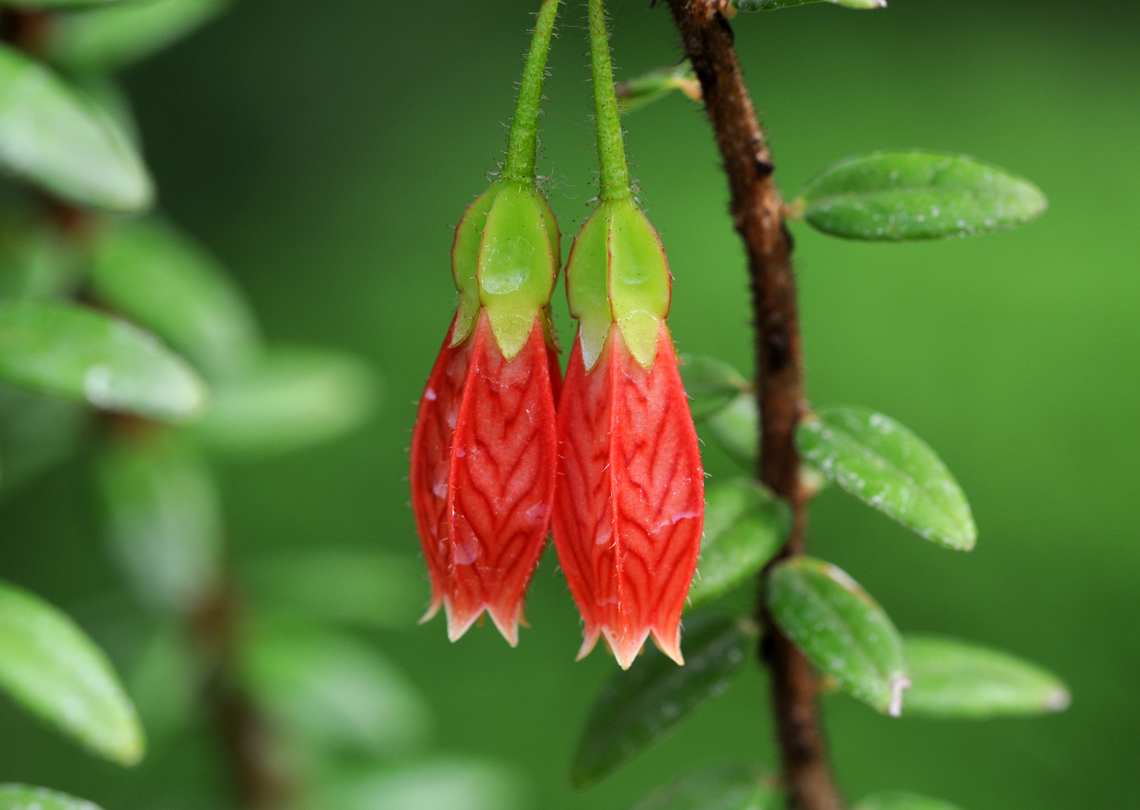 Flowers of A. serpens, originated from Bhutan, Nepal. Flowers and Botanical Garden of Cologne, Germany.